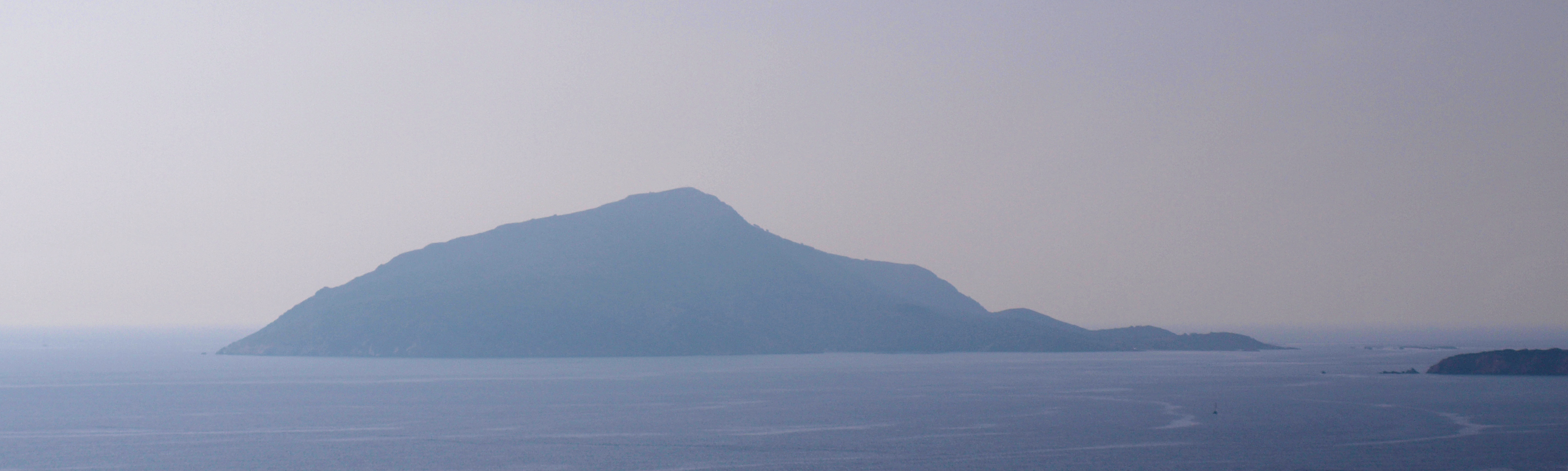 Patroclus Island, Greece (Πάτροκλος)